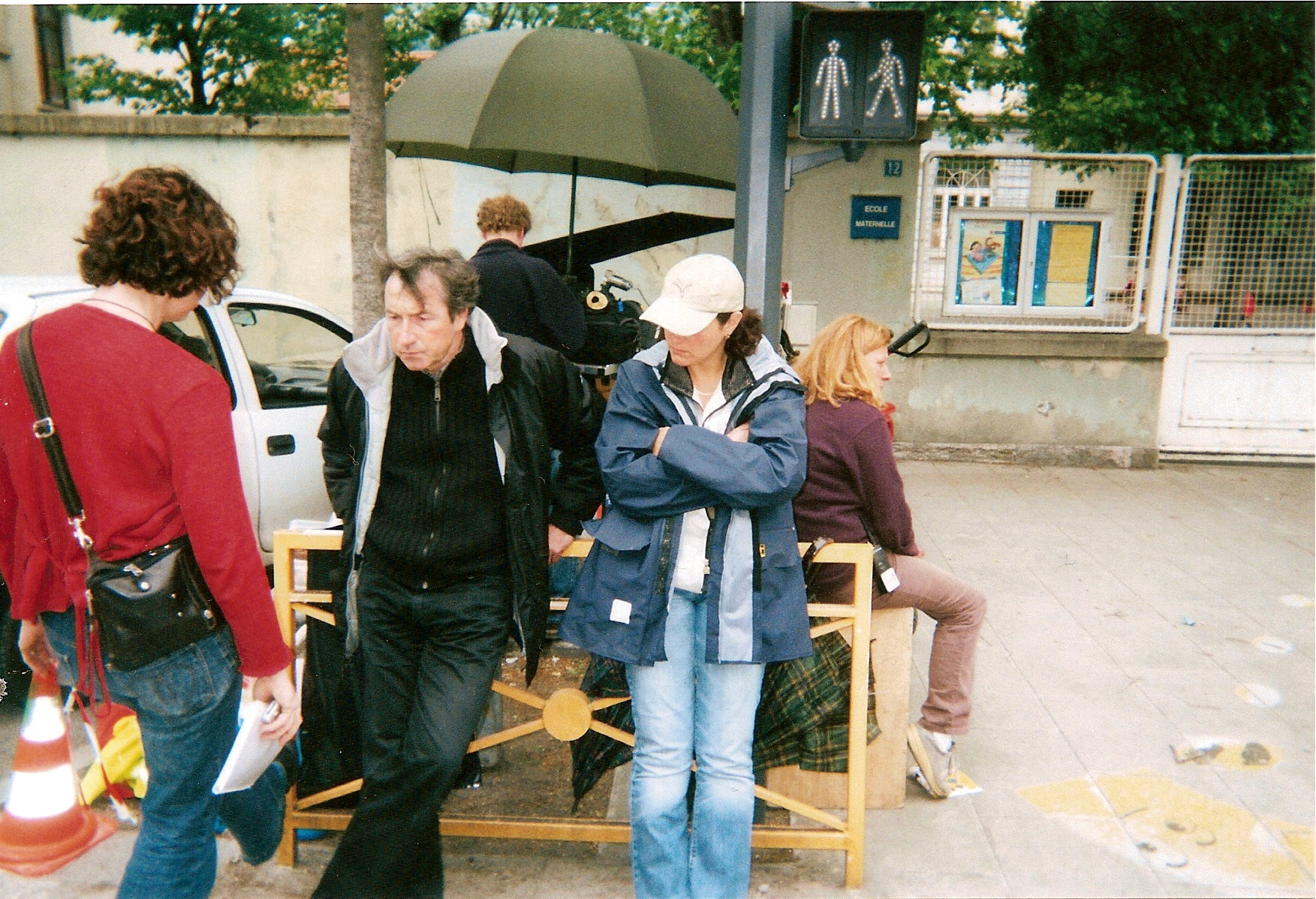 On the set of The Girl from the Chartreuse in Grenoble (France). Director Jean-Pierre Denis thinking during the technical preparation of a school scene.